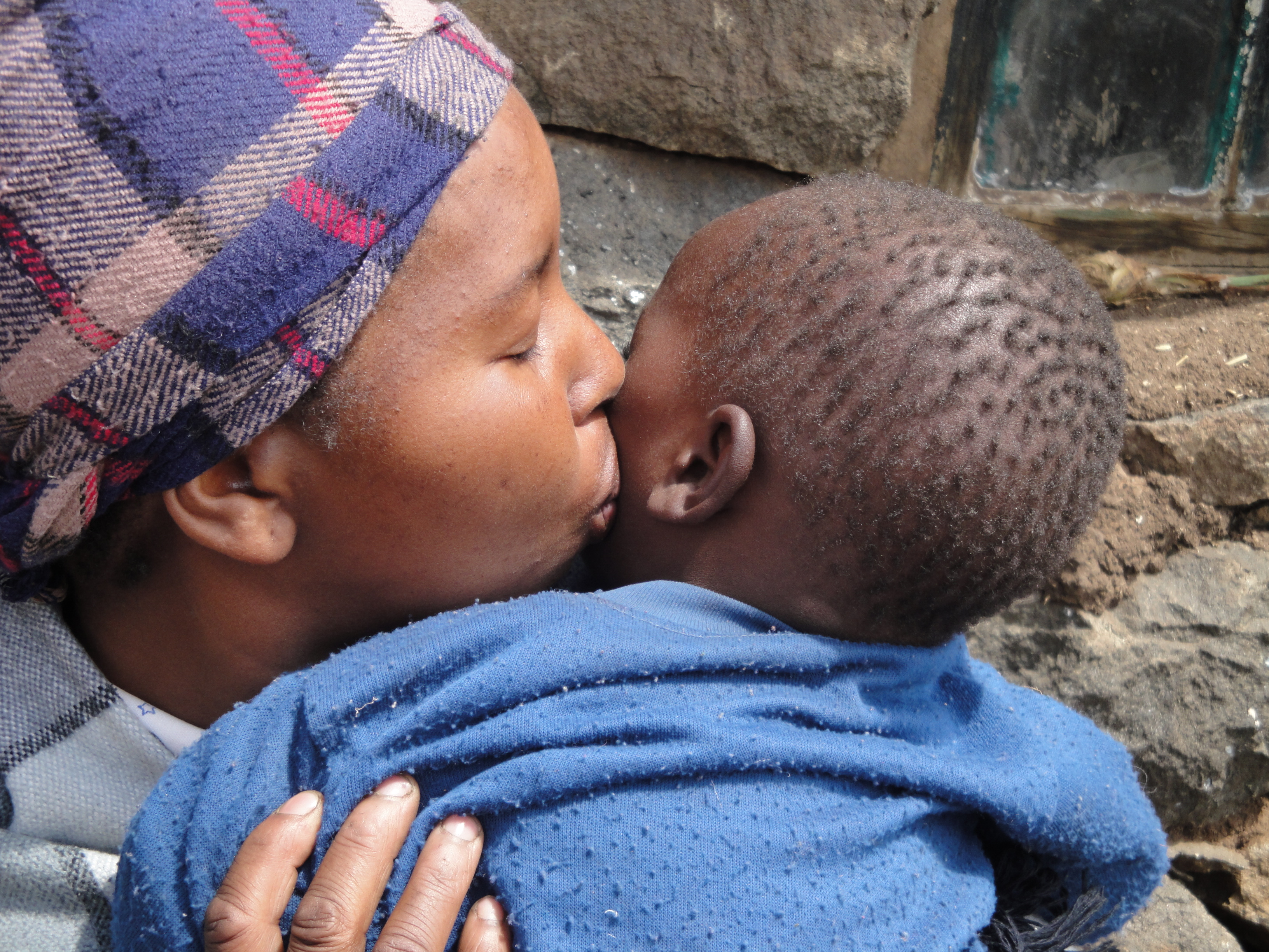 A few months after Tsokuliso’s death, Maamohelang realized she had conceived again. Knowing she was HIV-positive, she visited the Molikaliko clinic and received medication to prevent passing HIV on to her child. In August 2008, her baby was born, HIV-free. His name is Rebone, which means “we have witnessed.” Maamohelang continues to take HIV treatment, thanks to the support of USAID and the Riders for Health program. Credit: Reverie Zurba/USAID.